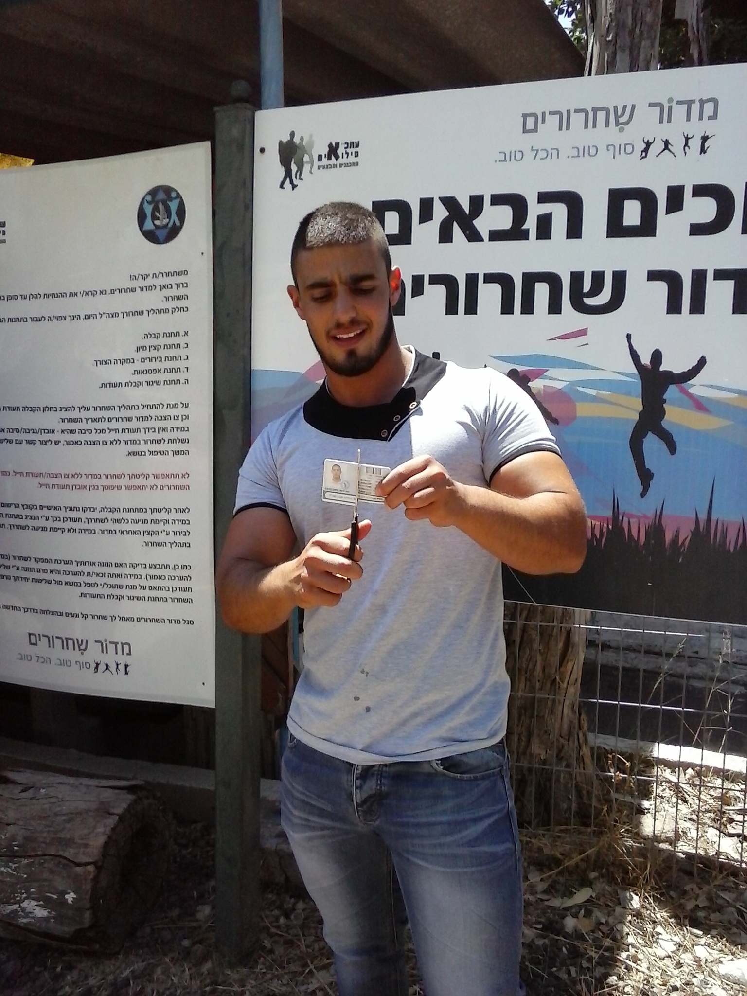 Release from the Israel Defense Forces - Cutting the soldier certificate